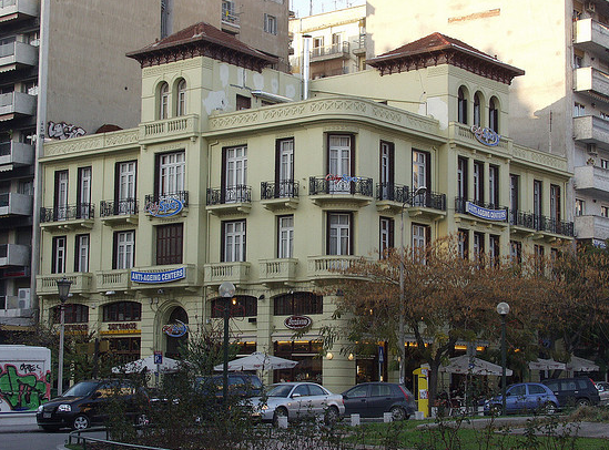 A building on Aghias Sofias Square in Thessaloniki, Greece.